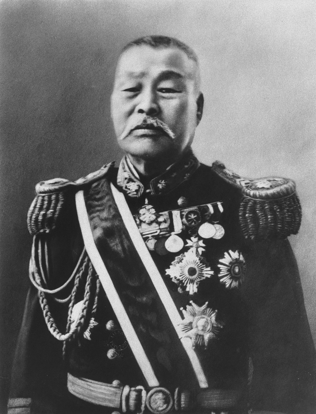 Portrait of Admiral Kabayama Sukenori (樺山資紀, 1837 – 1922)